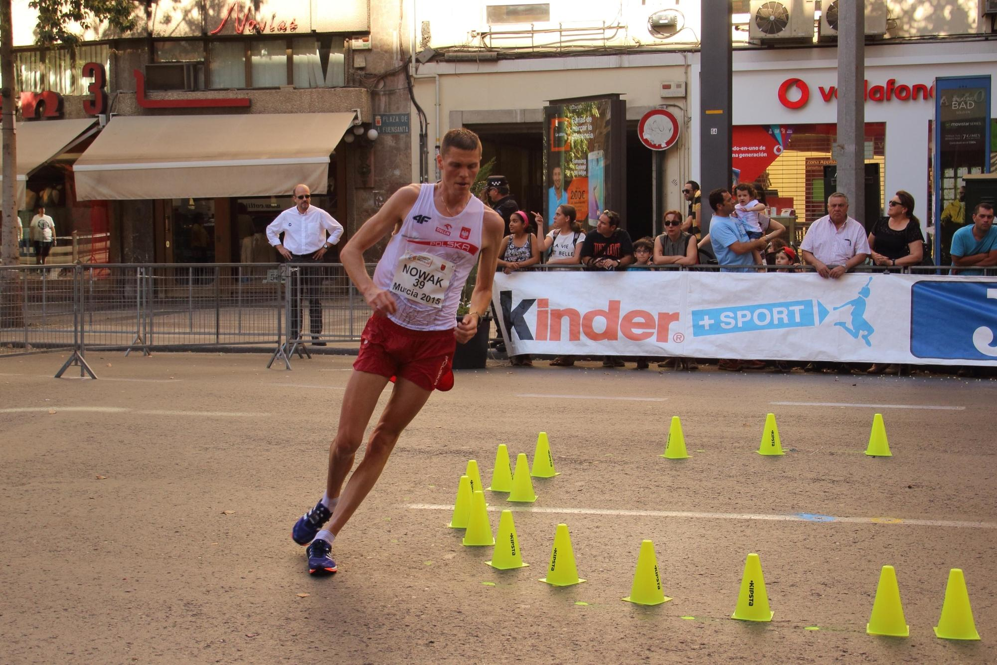 39-Łukasz Nowak (POL) in the 11th European Cup Race Walking Murcia ESP 17 May 2015